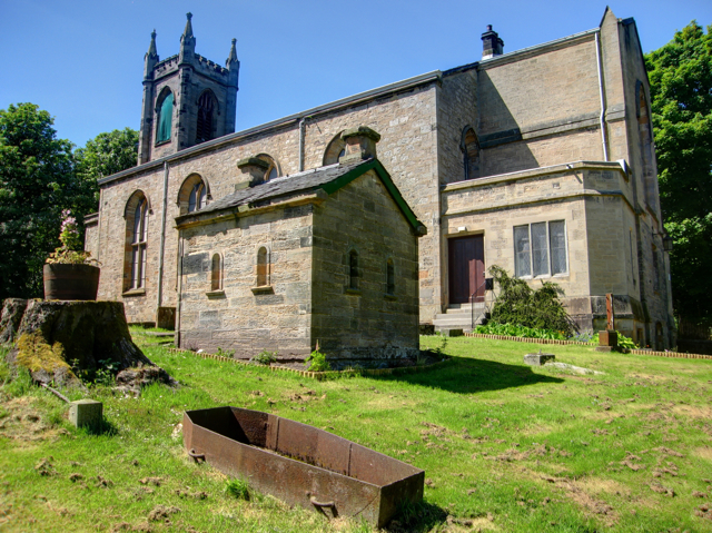 Cadder: Parish Church, watchhouse and iron mortsafe Cadder Parish Church lies close to the Forth and Clyde canal. This was to the advantage of 19th century grave-robbers in that it provided rapid transport to the anatomy schools in Glasgow and Edinburgh. It is perhaps not surprising, therefore that the graveyard contains not only an iron mortsafe to protect the newly dead but also a watchhouse to provide shelter to the watchers guarding the graves.